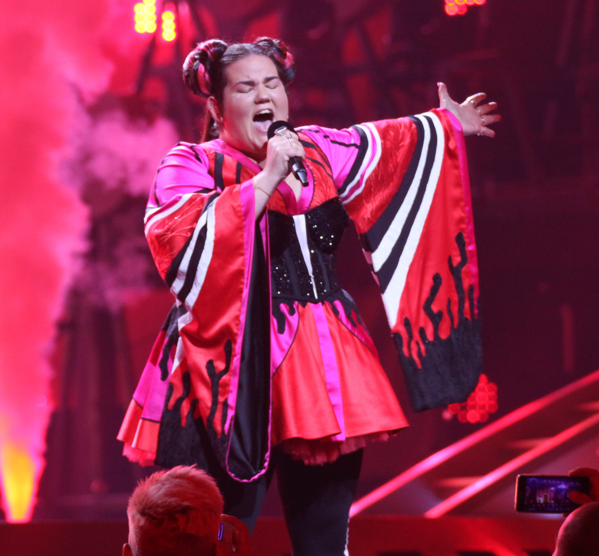 Netta representing Israel with the song "Toy" during a rehearsal before the grand final of the Eurovision Song Contest 2018 in Lisbon.